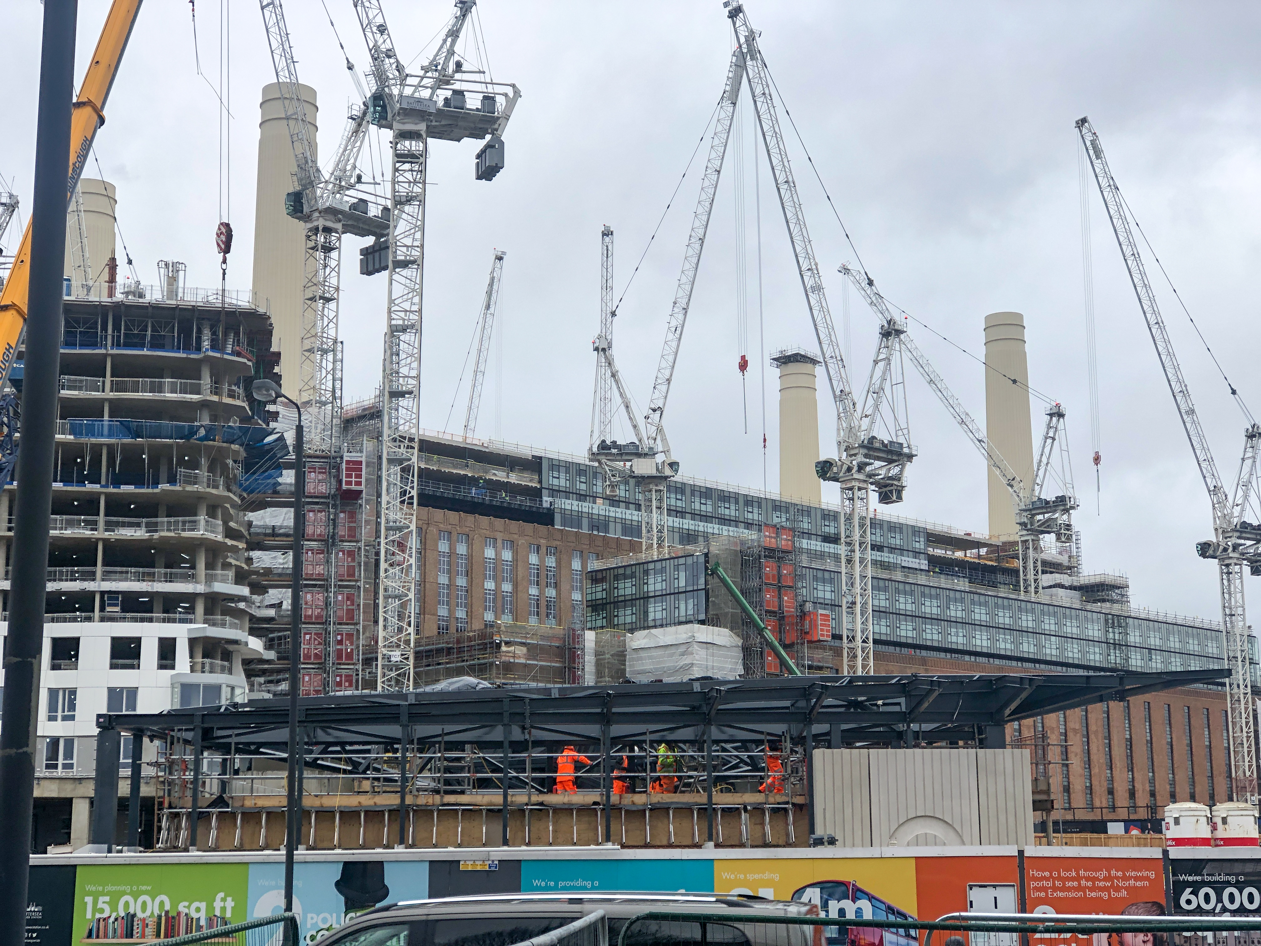 Entrance to Battersea Power Station Underground Station under construction, with the Battersea Power Station development behind.